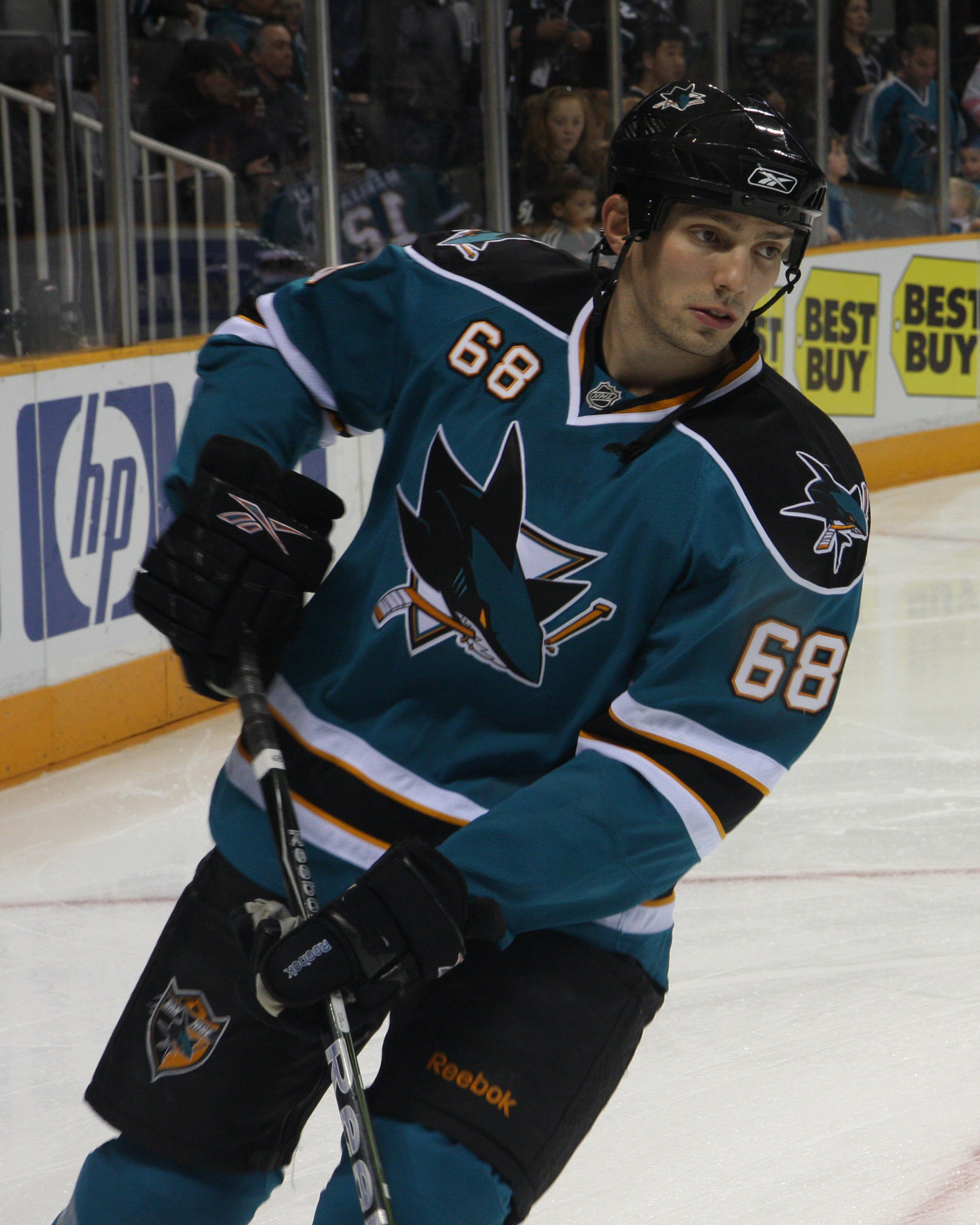 Frazer McLaren during the Pre-Game Skate before the Sharks Vs. Flyers game.